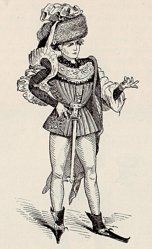 Fur garment 15th century, young 'Stutzer' (German)